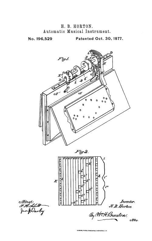 Diagram from Patent 196,529 showing structure of organette